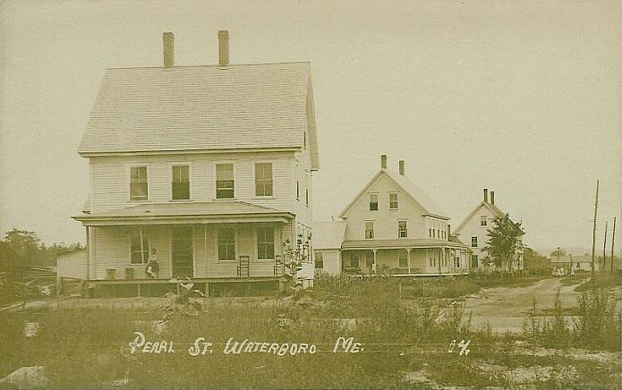 Pearl Street, Waterboro, Maine